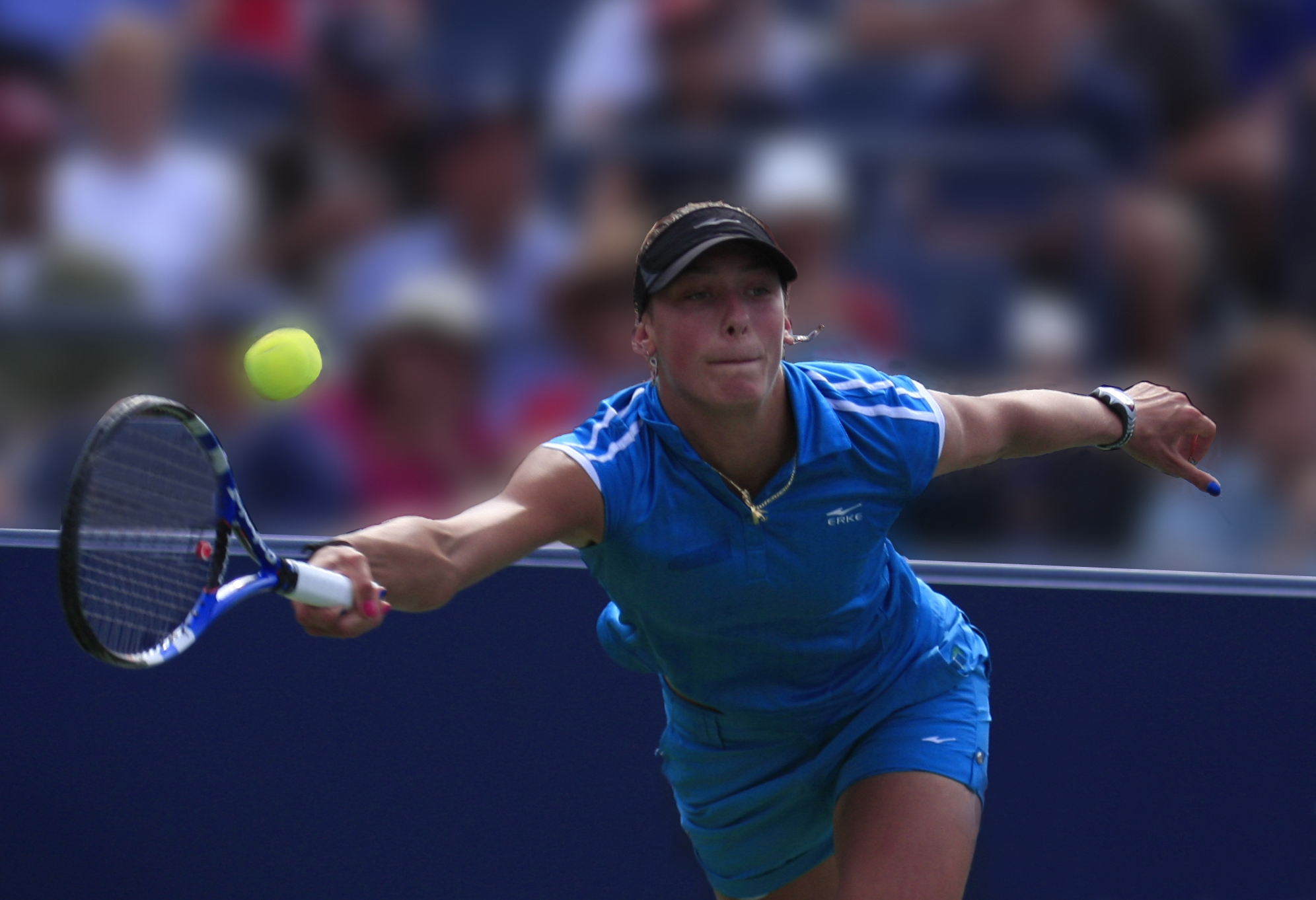 Yanina Wickmayer in 2009 US Open match against Petra Kvitova